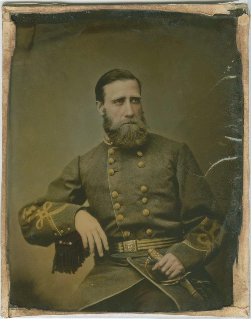 Colorized photograph of a 3/4 portrait of General John Bell Hood in uniform. The photograph has a frame. From the Collections of the Confederate Memorial Literary Society managed by the Virginia Historical Society